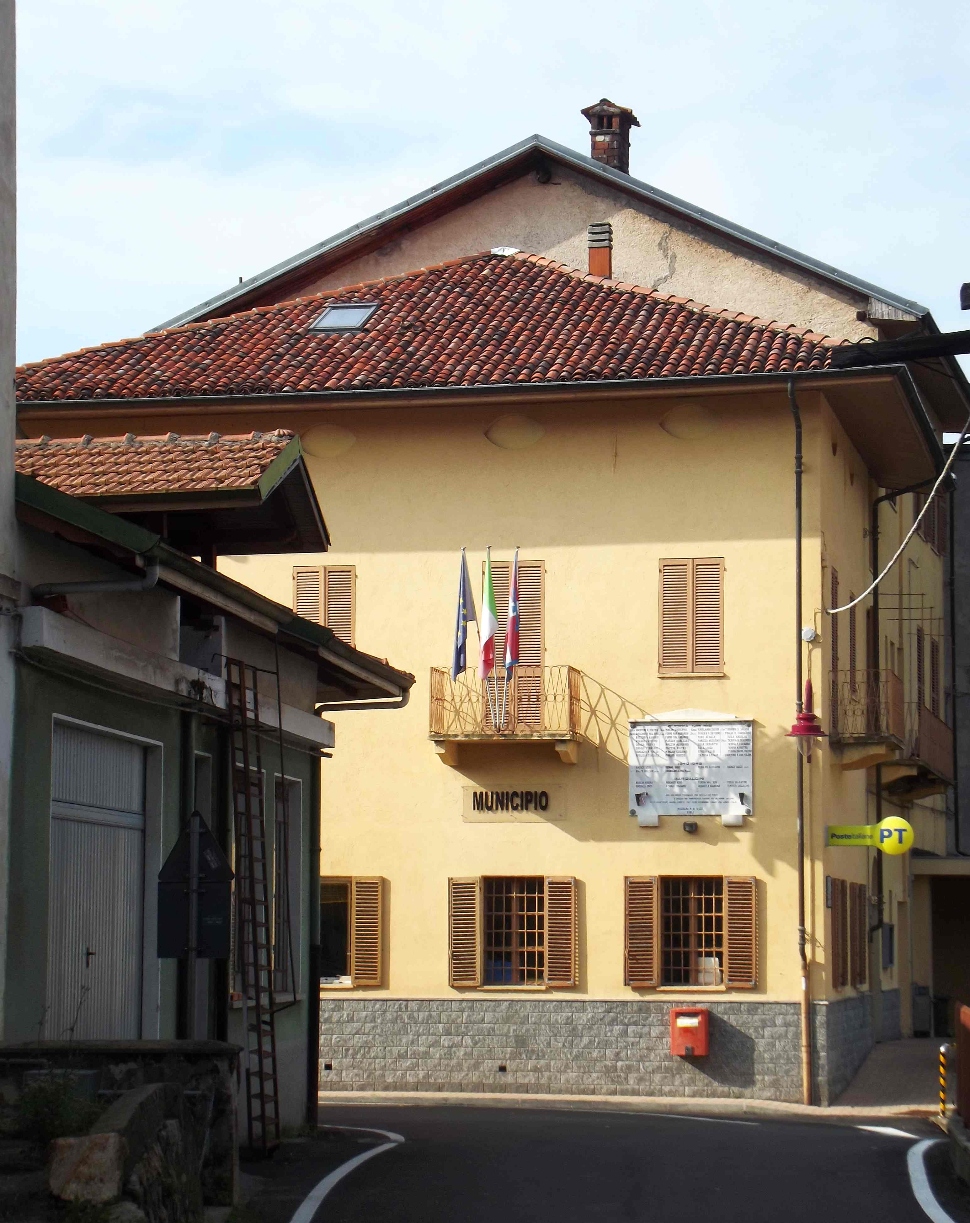 Mezzana Mortigliengo (BI, Italy): town hall